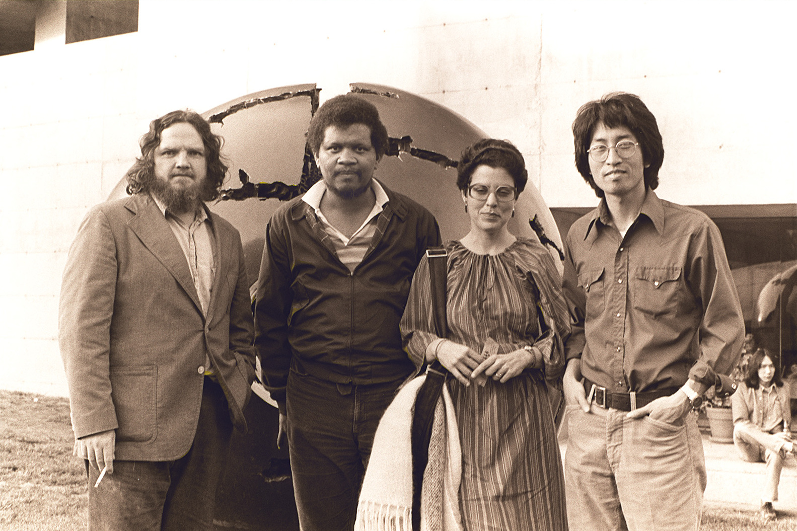 Ishmael Scott Reed is an American poet, essayist, playwright and novelist. From left: Poet, writer, teacher, publisher Bob Callahan, Ishmael Reed, Ishmael's wife Carla Blank, play director, with novelist Shawn Wong at right. Photo by Nancy Wong.